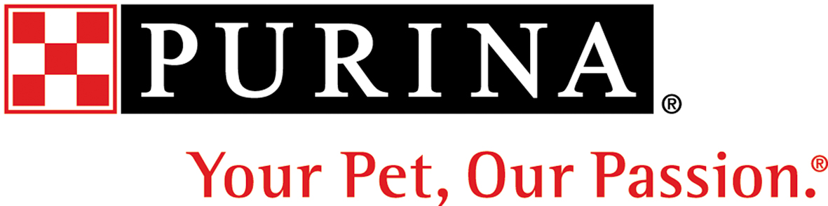 The logo of Nestlé Purina PetCare